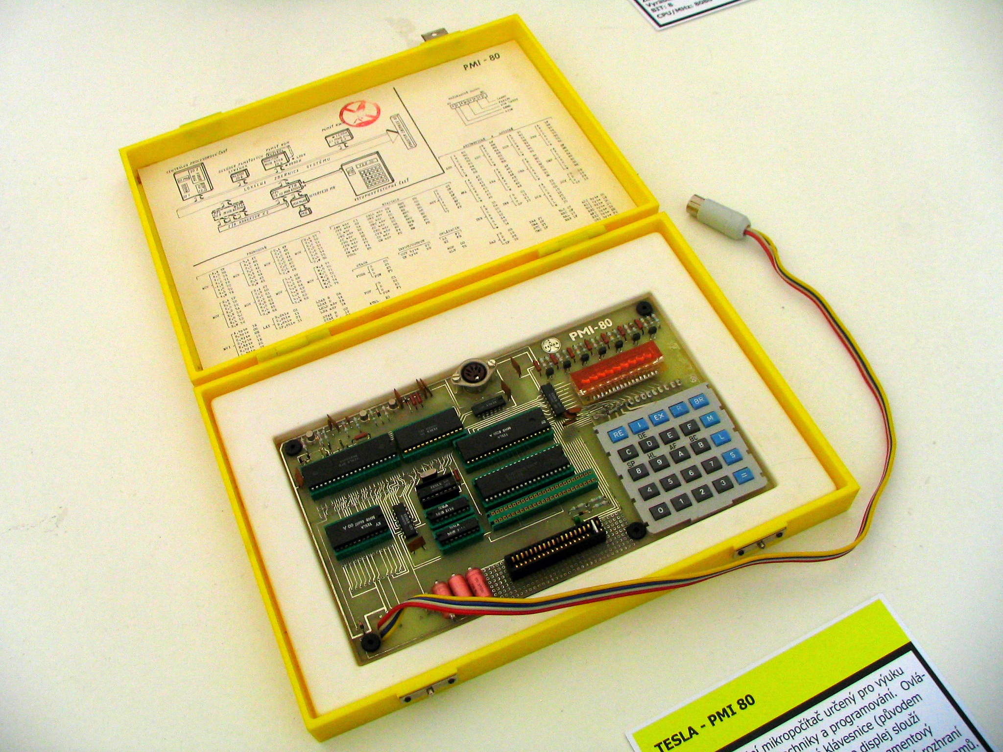 8bit computer PMI-80